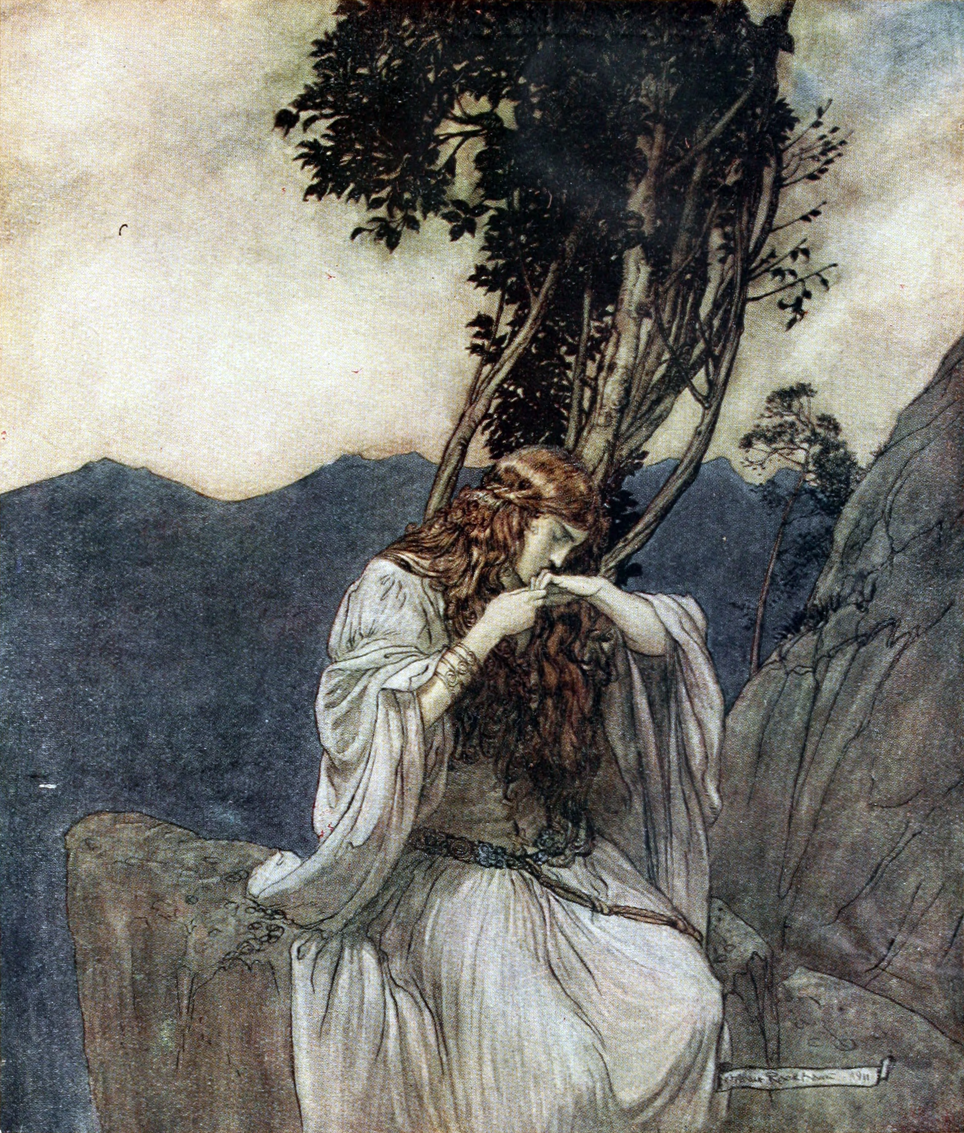 Brünnhilde kisses the ring that Siegfried has left with her.